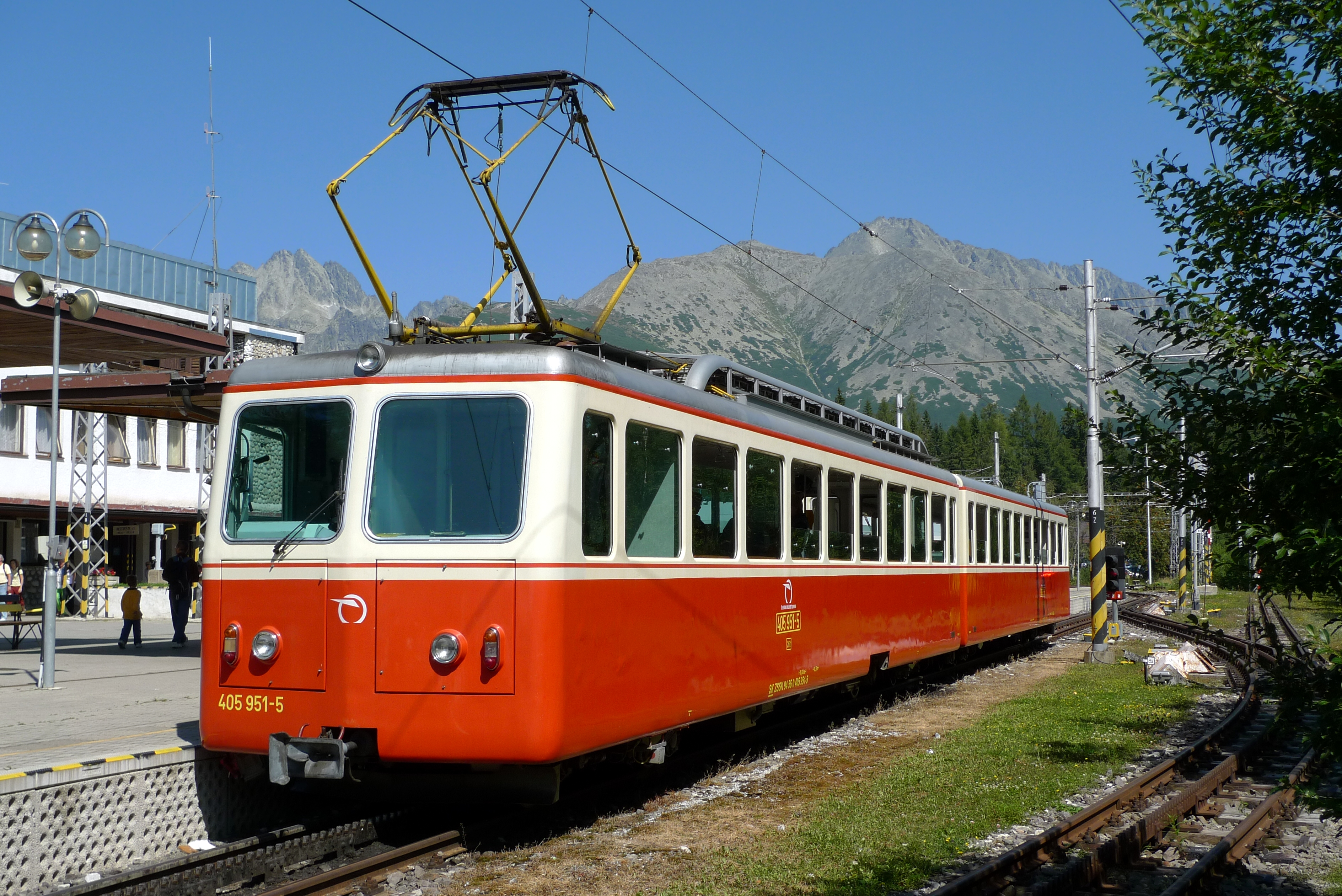 multiple unit 405.95 of the rack railway Štrba–Štrbské Pleso, at the trainstation Štrbské Pleso